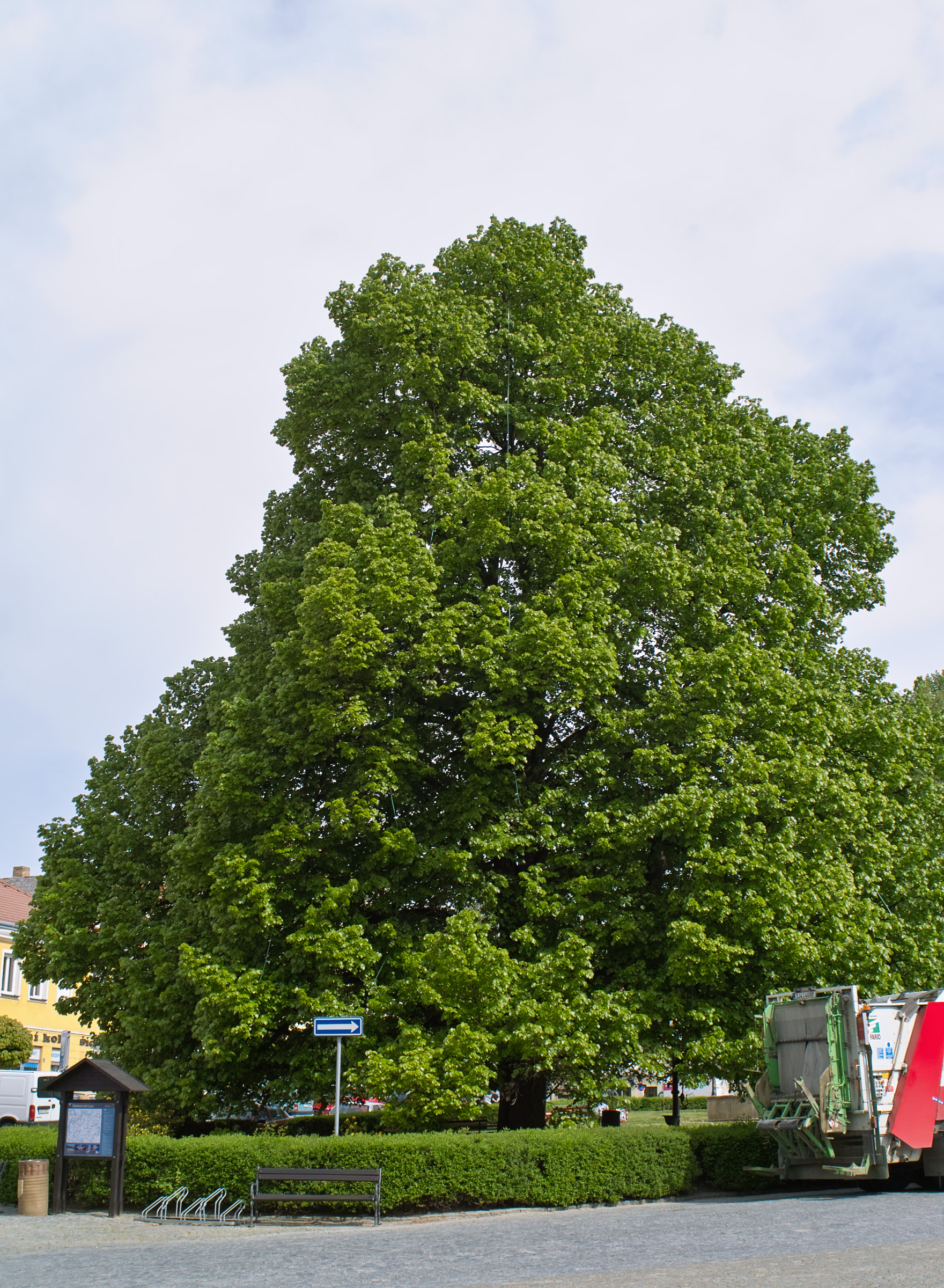 Lipa svobody (lime-tree of freedom), Kamenice nad Lipou, Czech Republic